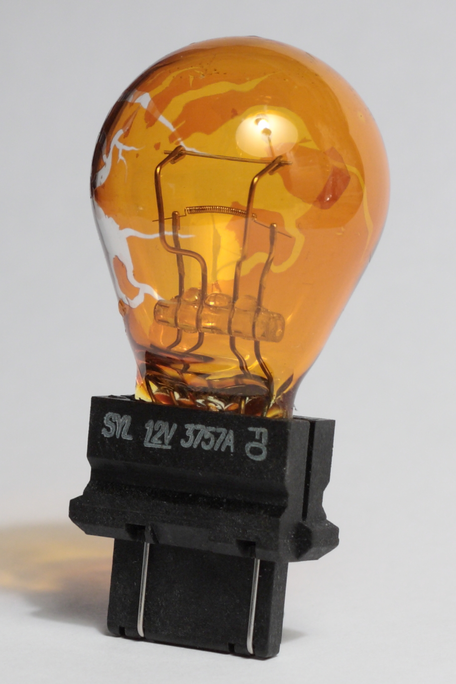 A 12V PY27/7W automotive lamp. This particular lamp has been in use for several years as a front turn signal lamp and the amber color coating has started to worn out.